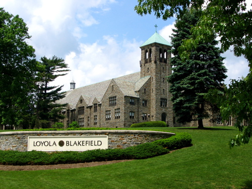 Loyola Blakefield's Wheeler Hall, from the Charles Street lawn